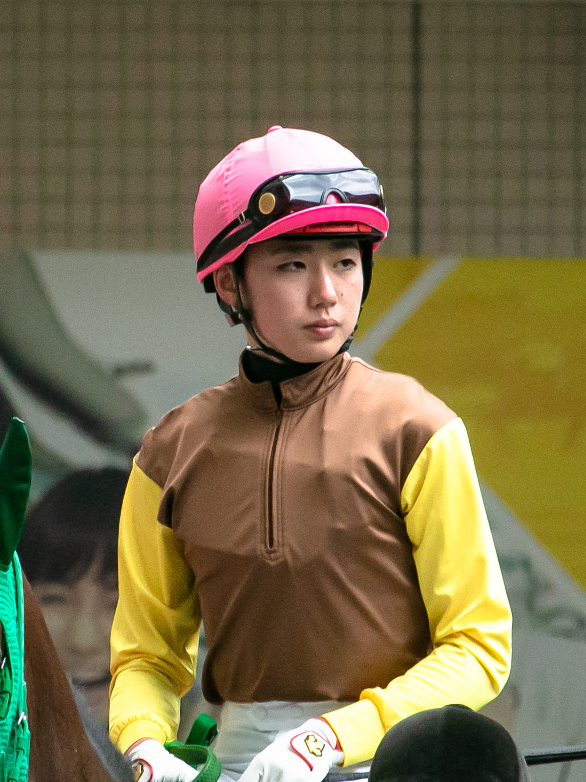 Arata Saito, Jockey of JRA